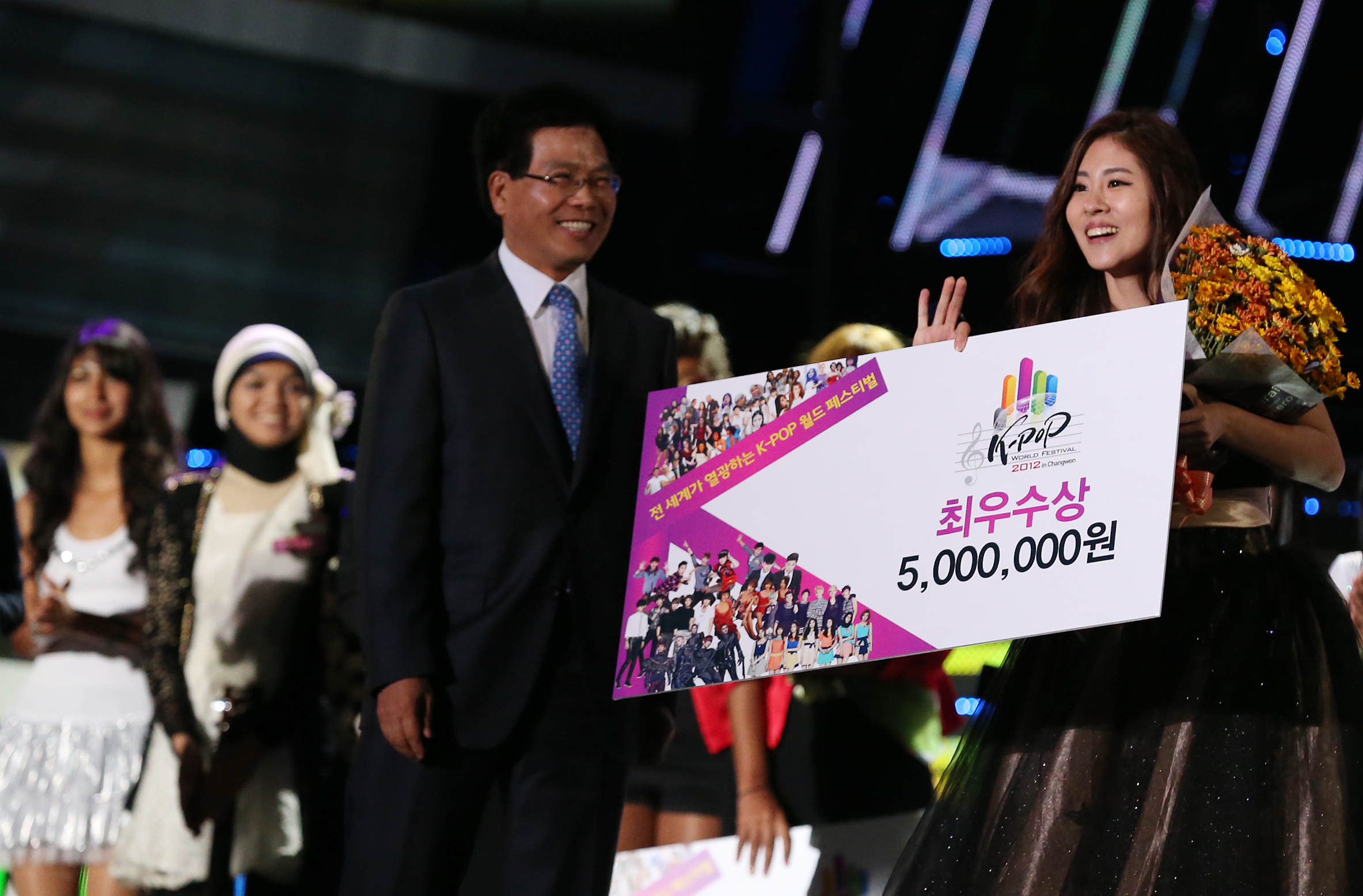 2012 K-POP World Festival Awards Cermony Changwon, Korea 2012.10.28. Ministry of Culture, Sports and Tourism Korean Culture and Information Service Jeon Han 2012 K-POP 월드 페스티벌 시상식 경상남도 창원시 문화체육관광부 해외문화홍보원 코리아넷 전한